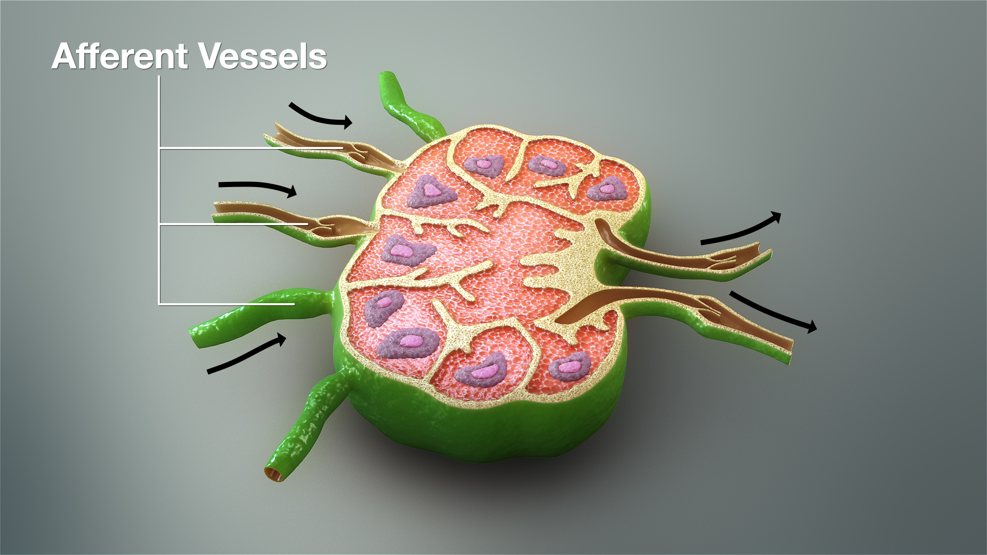 3D medical animation still a cross section view of a lymph node with afferent vessels connecting to it